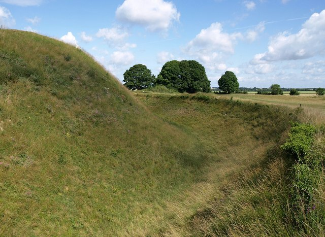 Old Sarum - the ditch "The defences of the hillfort were adapted to become those of the outer bailey while a mound was constructed in the centre of the hillfort. The mound is over 100m in diameter and rises to a height of c.5m above natural ground level. It is surrounded by a ditch, c.20m wide and over 6m deep, from which material to construct the mound was quarried." Therefore the foot of the ditch is, or was, at least 11 metres from the top of the mound.